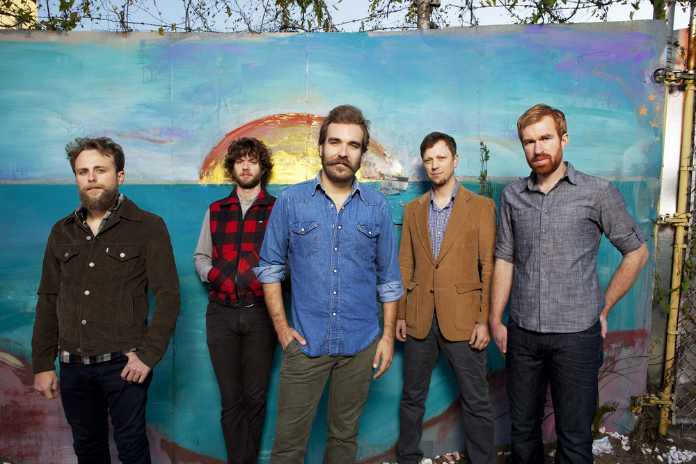 American band Red Wanting Blue